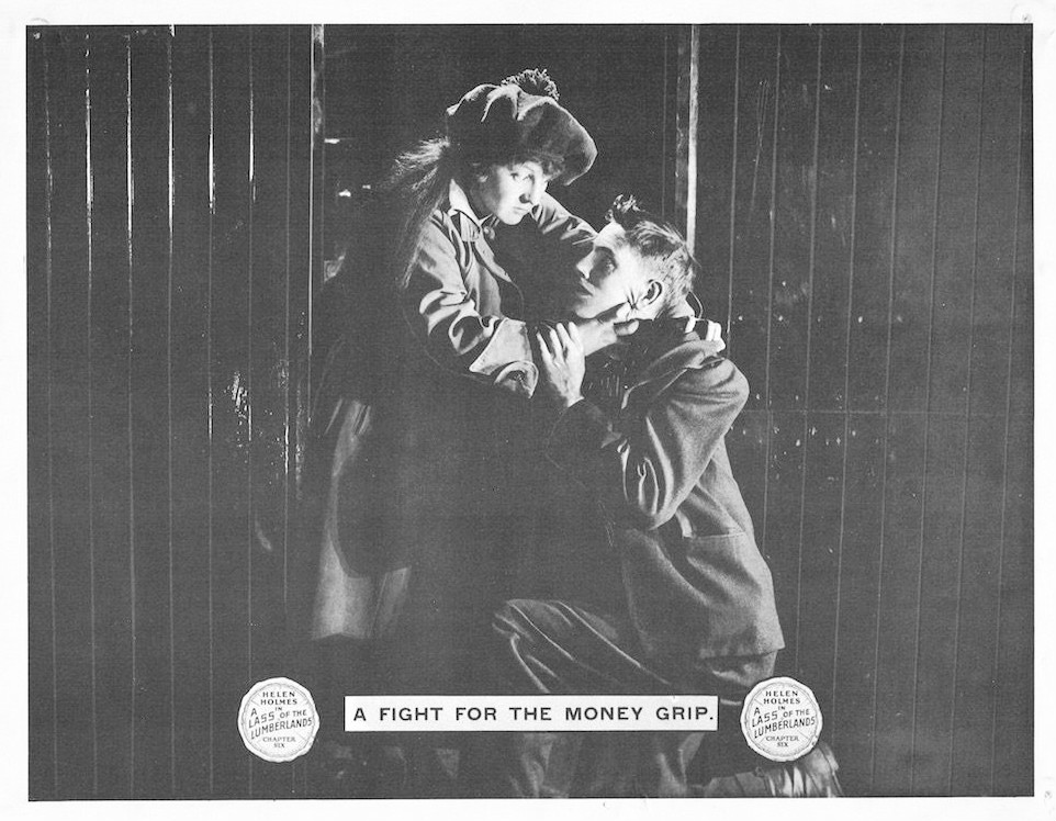 Lobby card for the American serial film A Lass of the Lumberlands (1916).